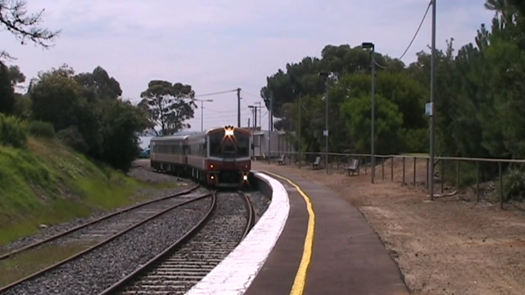 The now defunct passing loop at stony point, with a Sprinter DMU seen in the background